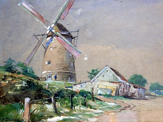 Eugen Gustav Dücker, "Landscape with a windmill". Watercolour, gouache, paper. 19th century